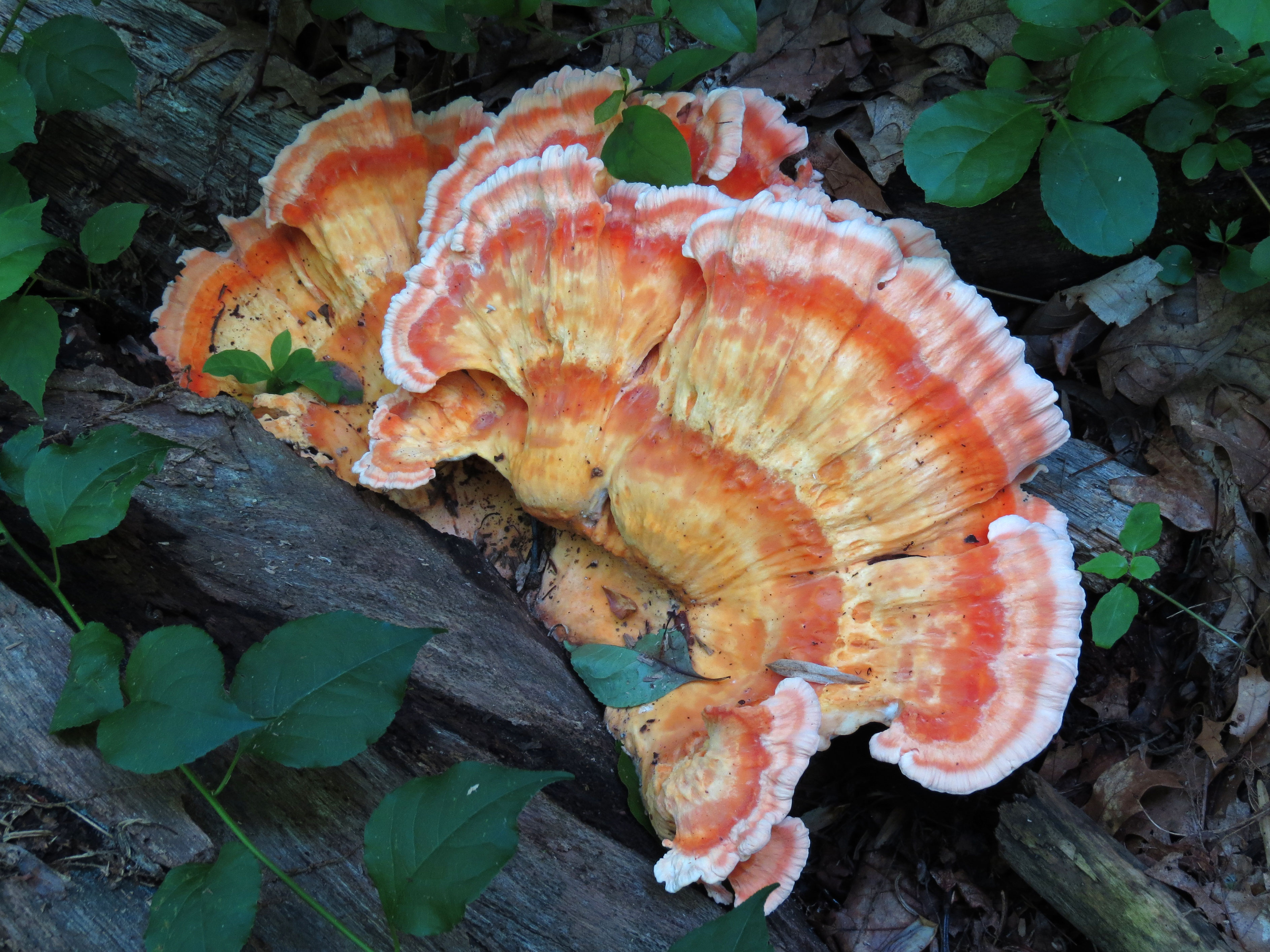 Laetiporus sulphureus. Rock Creek Park, Washington, DC, USA